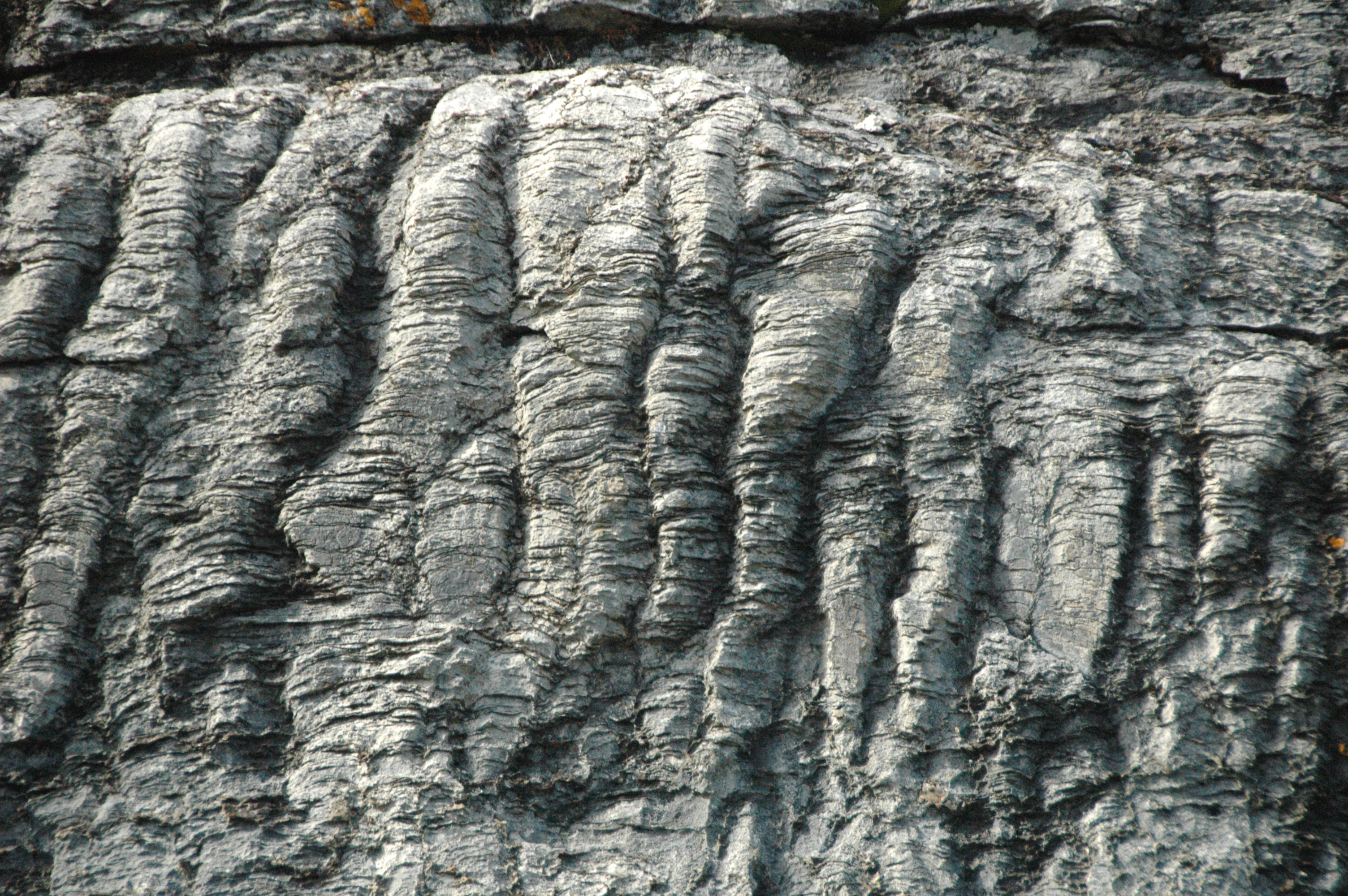 Stromatolitic limestone - numerous columnar stromatolites in Precambrian limestone at Glacier National Park, Montana, USA. Stratigraphy: Helena Formation (Siyeh Formation), Belt Supergroup, Mesoproterozoic, ~1.45 Ga Locality: roadcut on northern side of Going-to-the-Sun Highway (0.9 km east of NE corner of parking lot for Logan Pass visitor center), Glacier National Park, northwestern Montana, USA. Stromatolites are large, layered structures built up by mats of cyanobacteria. Stromatolites vary in appearance, ranging from slightly wrinkled horizontal laminations in sedimentary rocks to low mounds to prominent mounds to columnar structures and other forms. Stromatolites are most common in the Proterozoic fossil record. They are scarce today, but famous modern examples occur at Shark Bay, Western Australia.